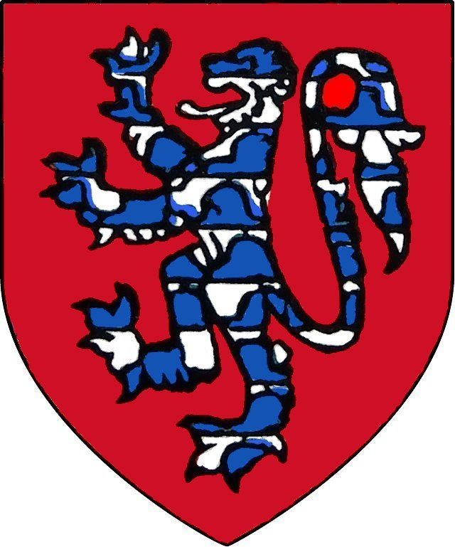 Coat of Arms of Baron Everingham of Laxton, etc